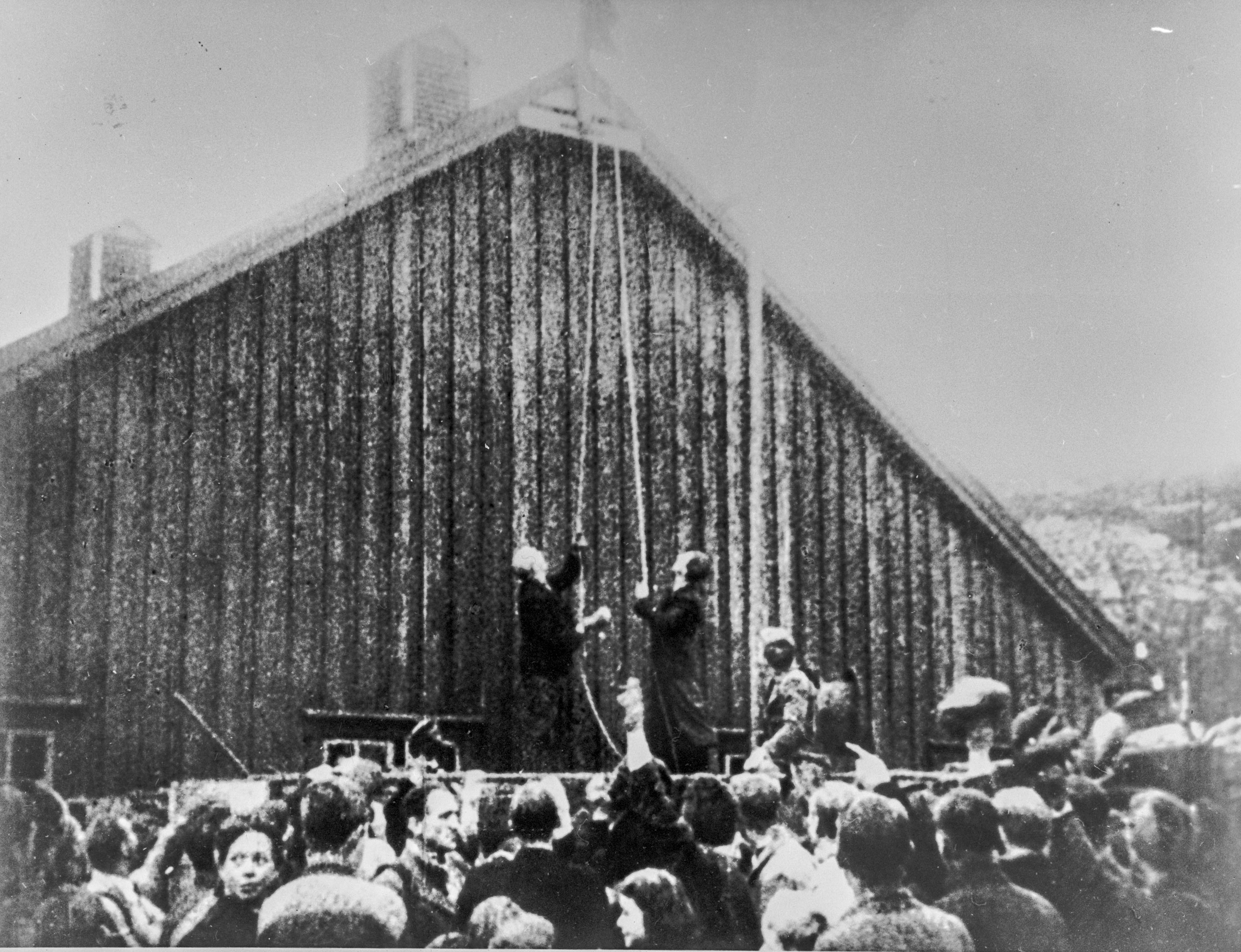 Photos from Flickr album "Evakueringen og frigjøringen av Finnmark" (The Evacuation and Liberation of Finnmark, 2015) ny Riksarkivet (National Archives of Norway). Towards the end of World War II, with Operation Nordlicht, the Germans used the scorched earth tactic in Finnmark and northern Troms to halt the Red Army. As a consequence of this, few houses survived the war, and a large part of the population was forcefully evacuated further south (Tromsø was crowded), but many people avoided evacuation by hiding in caves and mountain huts and waited until the Germans were gone, then inspected their burned homes. There were 11,000 houses, 4,700 cow sheds, 106 schools, 27 churches, and 21 hospitals burned. There were 22,000 communications lines destroyed, roads were blown up, boats destroyed, animals killed, and 1,000 children separated from their parents. However, after taking the town of Kirkenes on 25 October 1944 (as the first town in Norway), the Red Army did not attempt further offensives in Norway. The town was handed over to Norway as the war ended. When war was over, more than 70,000 people were left homeless in Finnmark. The government imposed a temporary ban on residents returning to Finnmark because of the danger of landmines. The ban lasted until the summer of 1945 when evacuees were told that they could finally return home.